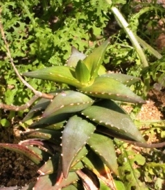 Juvenile Aloe pearsonii. Photo taken in botanical garden in South Africa.